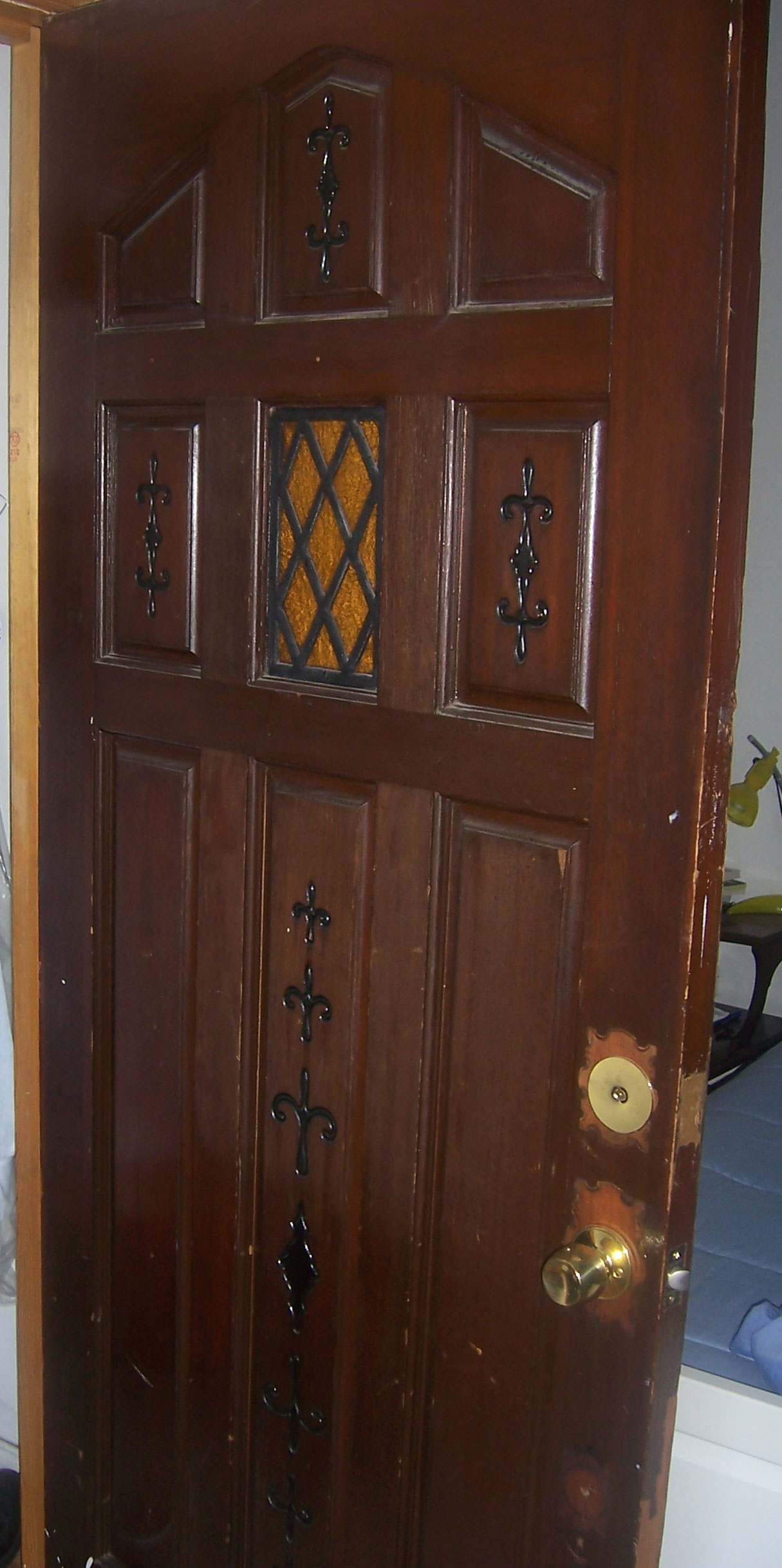 A refurbished door